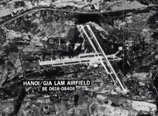 Close-up of Gia Lam Airfield. This image of Hanoi area was taken during the fourth mission, on 30 June 1967.